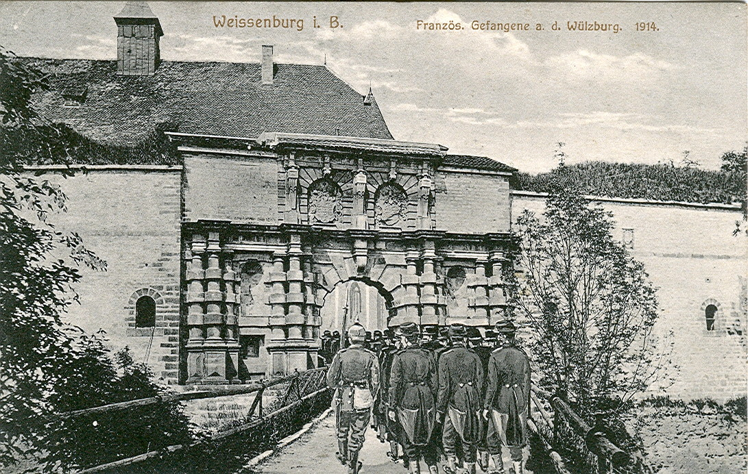 Postcard, dated 1914. Title: "Weissenburg in Bavaria - French prisoners of war at Wülzburg fortress in 1914"